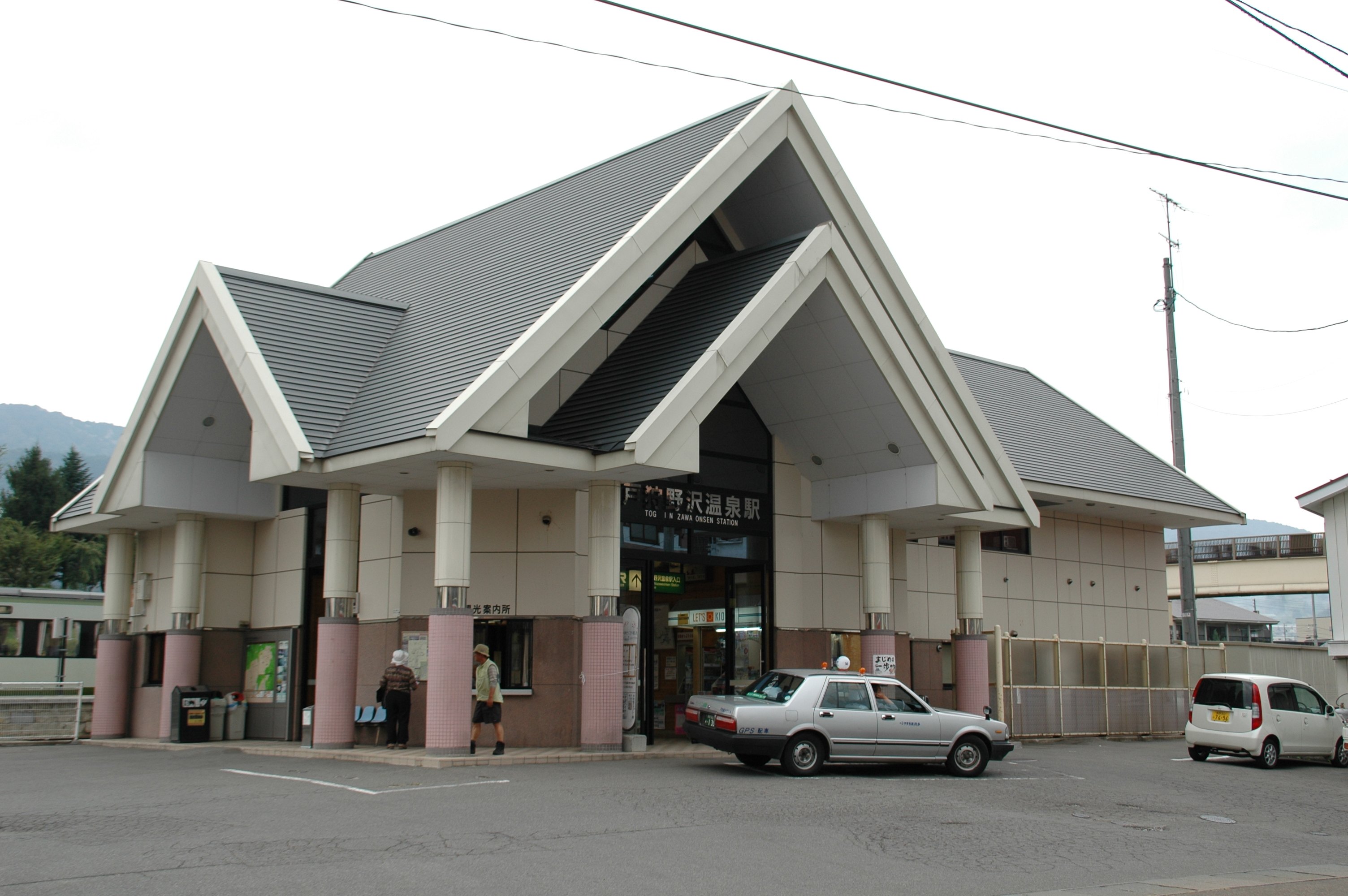 JR-EAST(JAPAN) Iiyama Line, Togari-NozawaOnsen Sta. photo by 2005.10.2